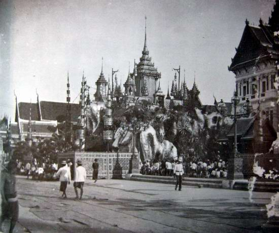 Miniature model of Mount Kailasa in the Grand Palace of Bangkok.